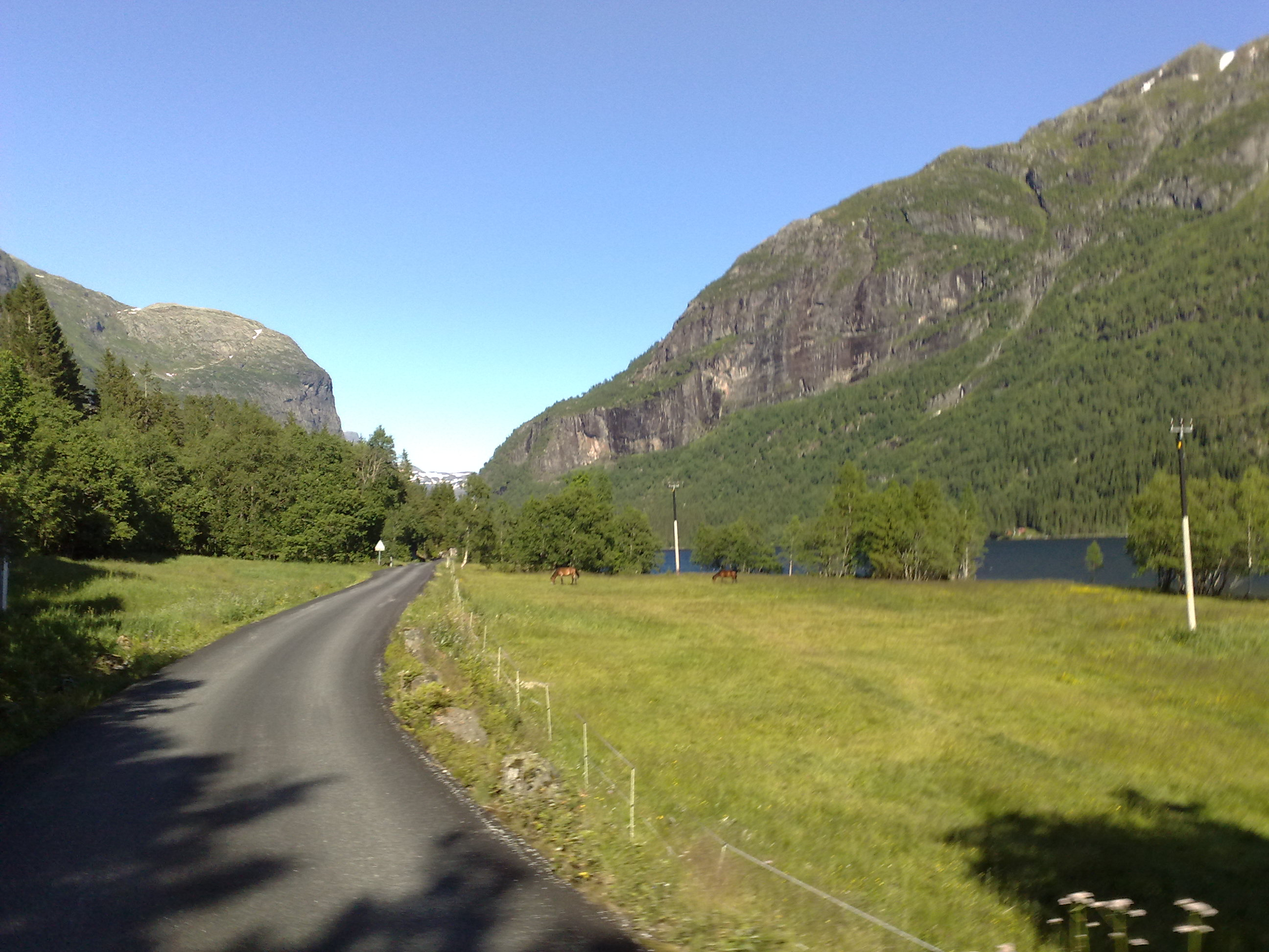 Road Fv572 near Espeland on the way to Ulvik (Norway)